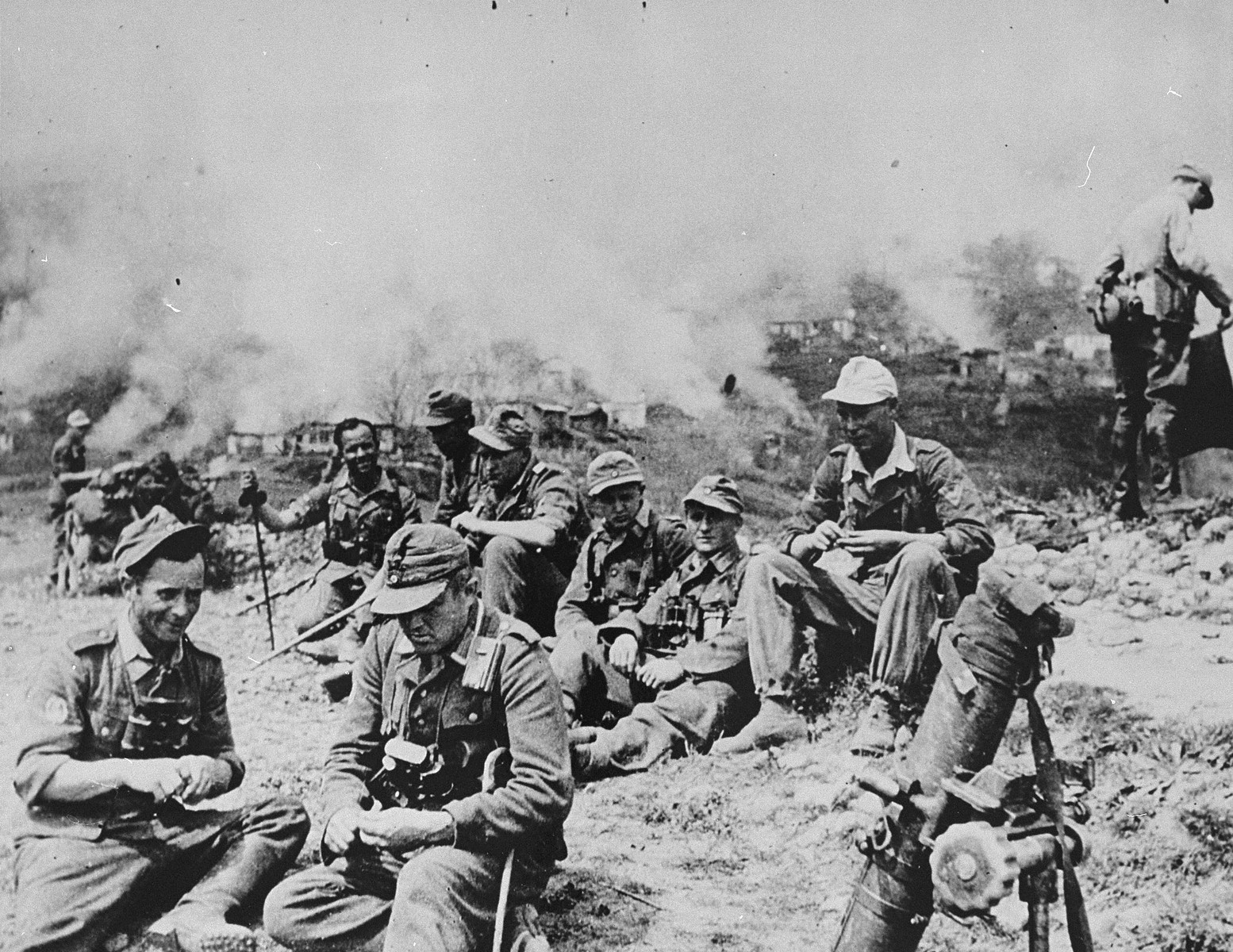 see titles